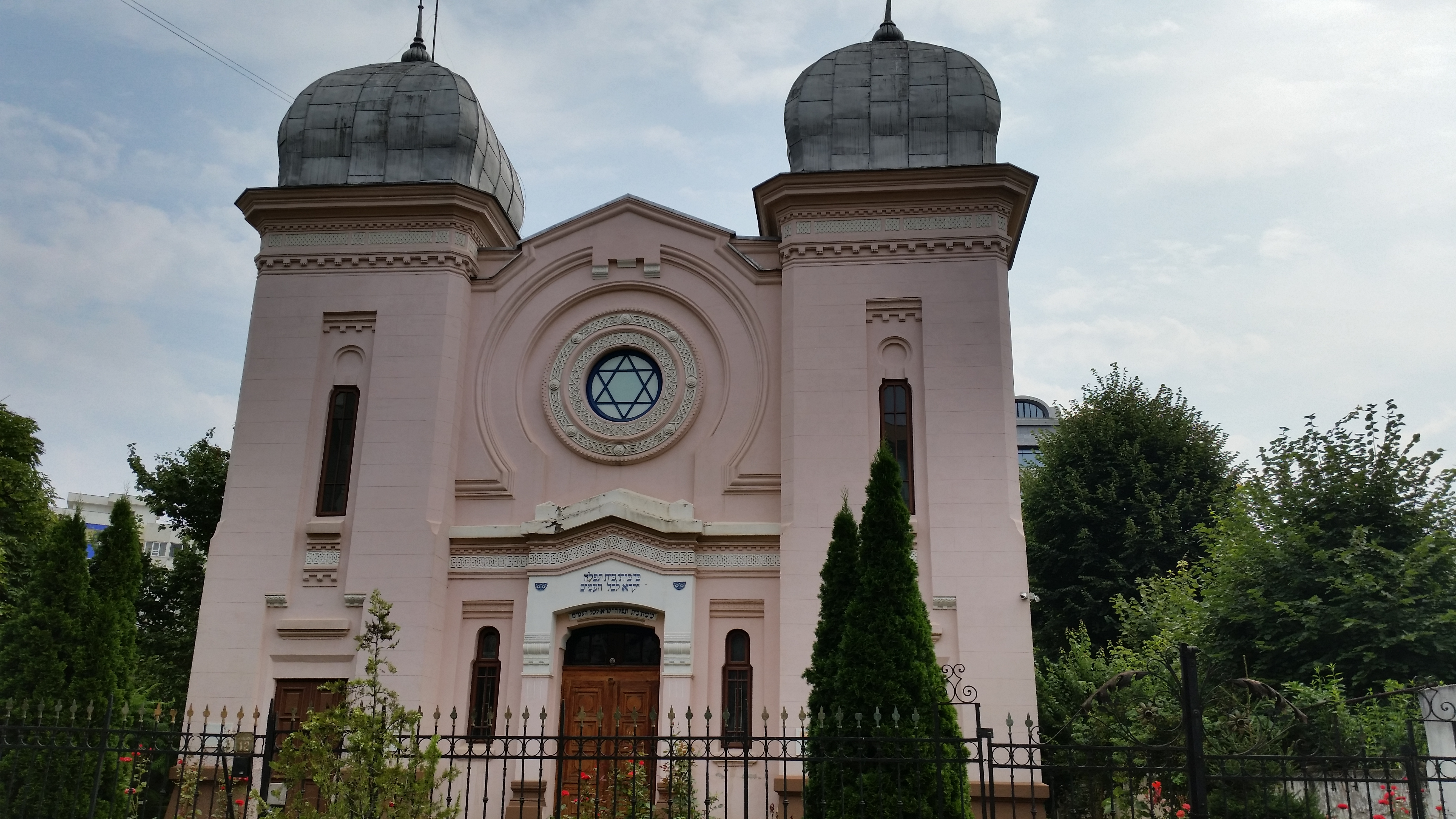 Beth Israel Synagogue from Ploiești, Romania.